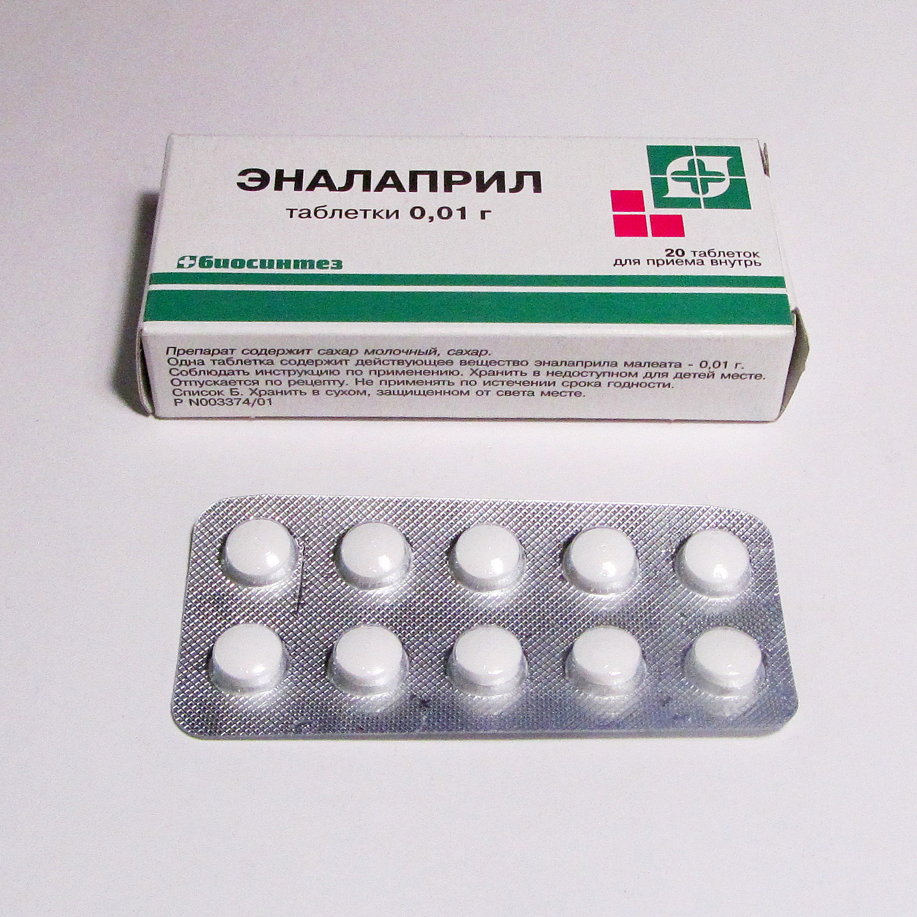 Enalapril